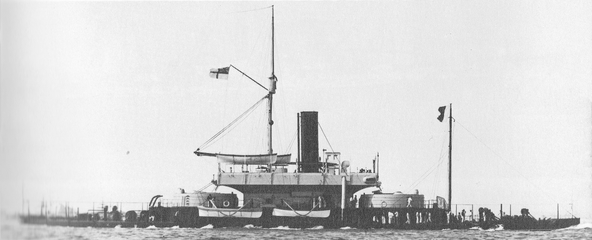 British coast defence ship HMS Cyclops, photographed at Spithead.